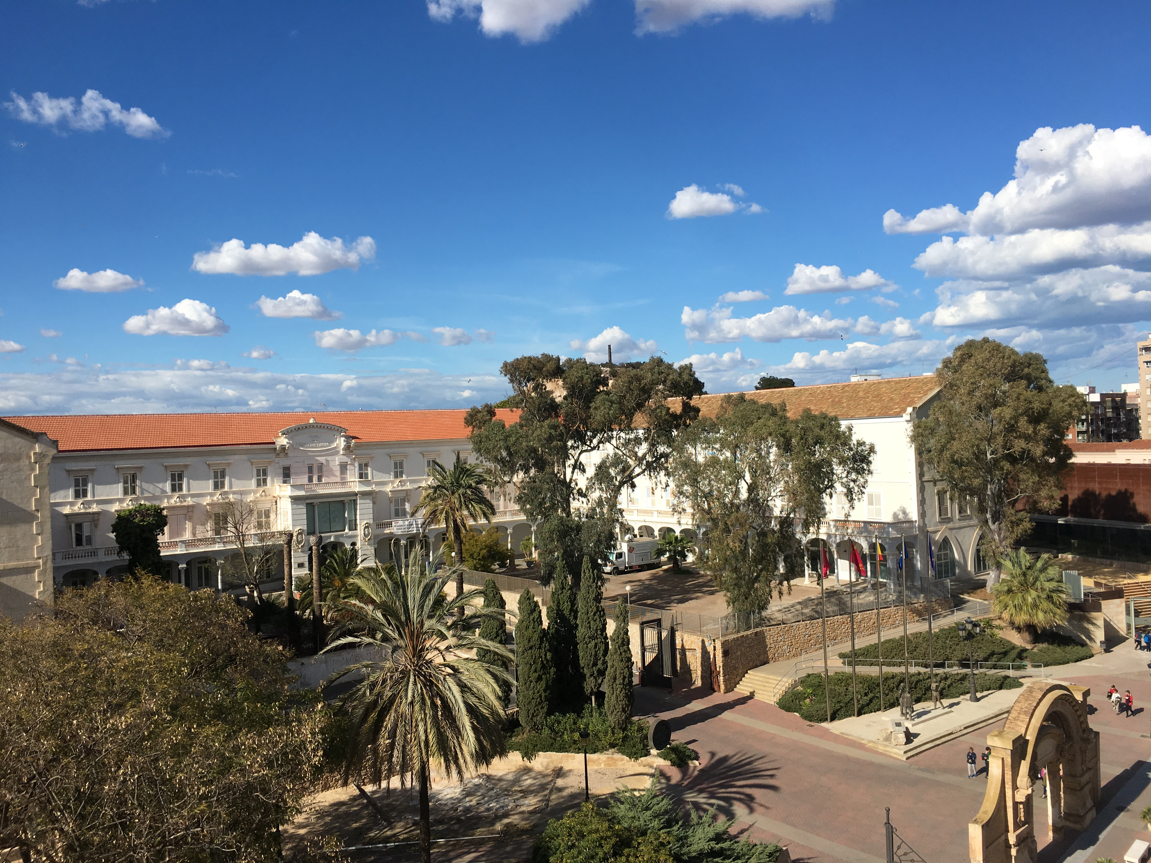 University of Cartagena